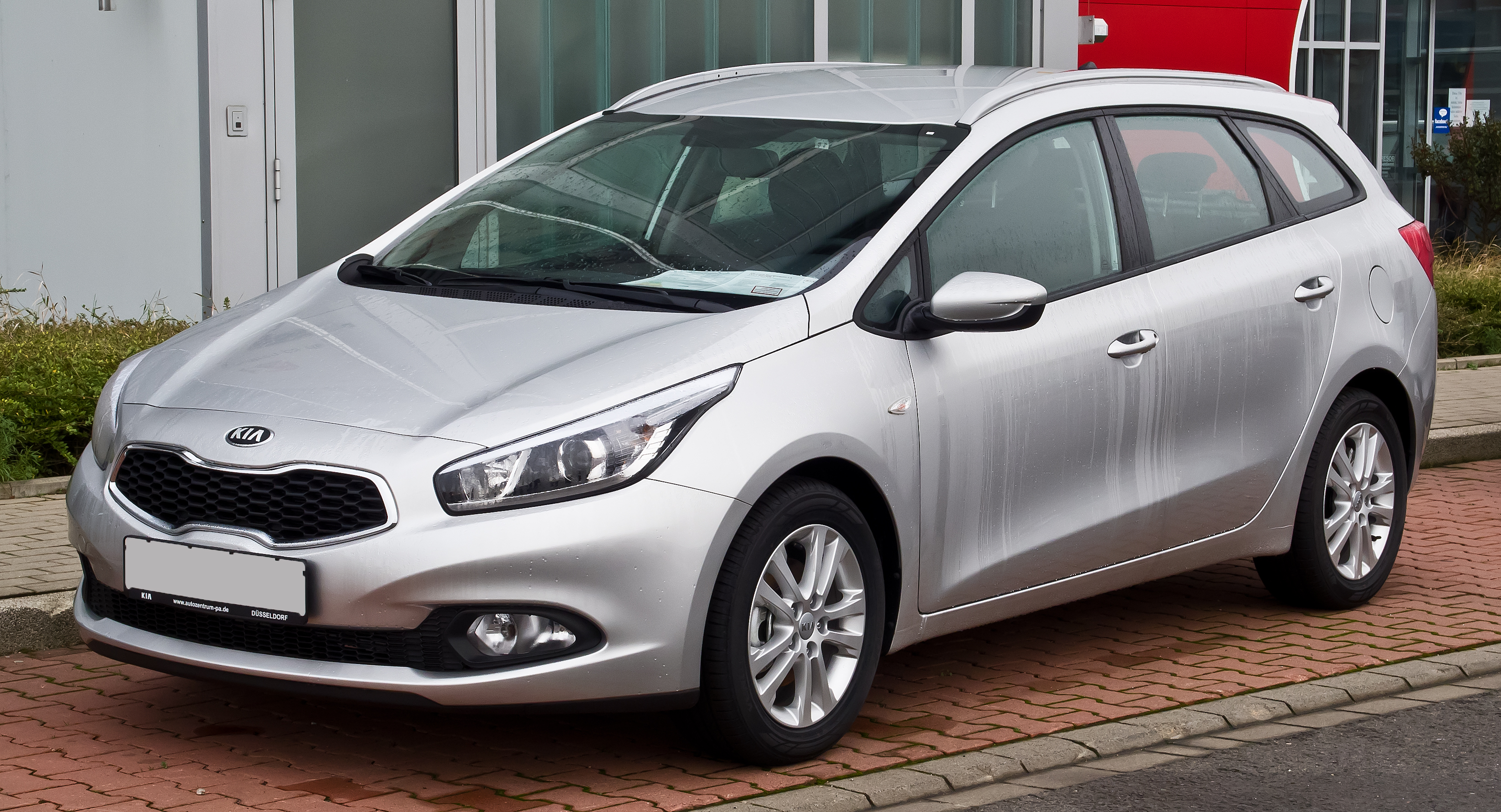 Kia cee'd sw 1.4 CVVT Edition 7 (EU)